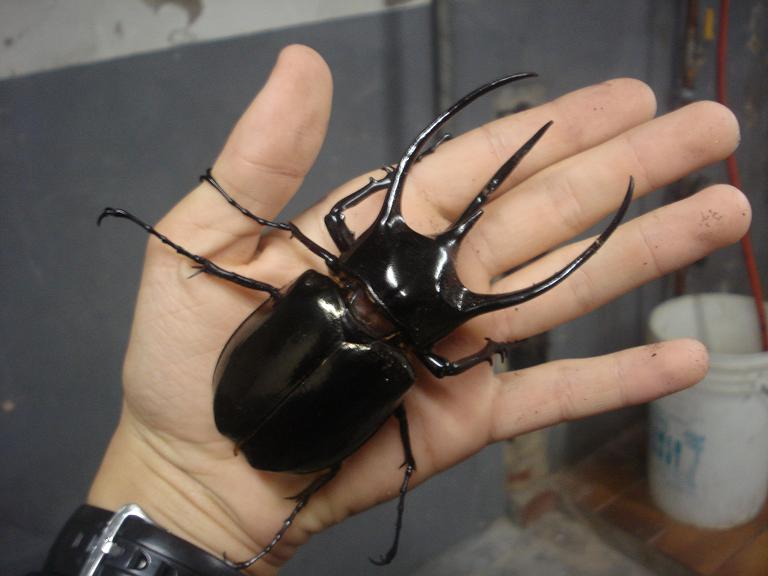 A 115mm long male of Chalcosoma caucasus